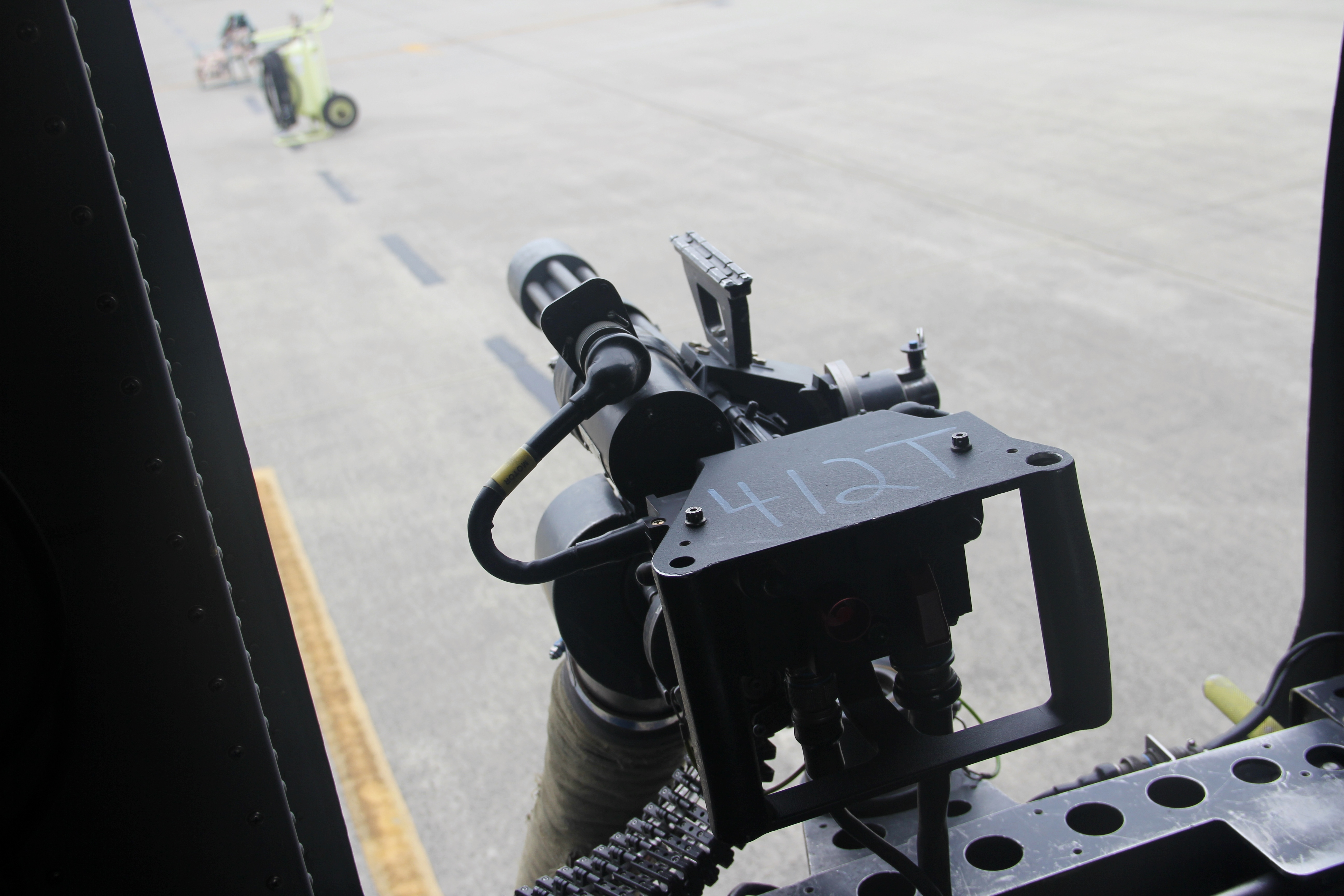 Boeing MH-47G Heavy Assault Helicopter